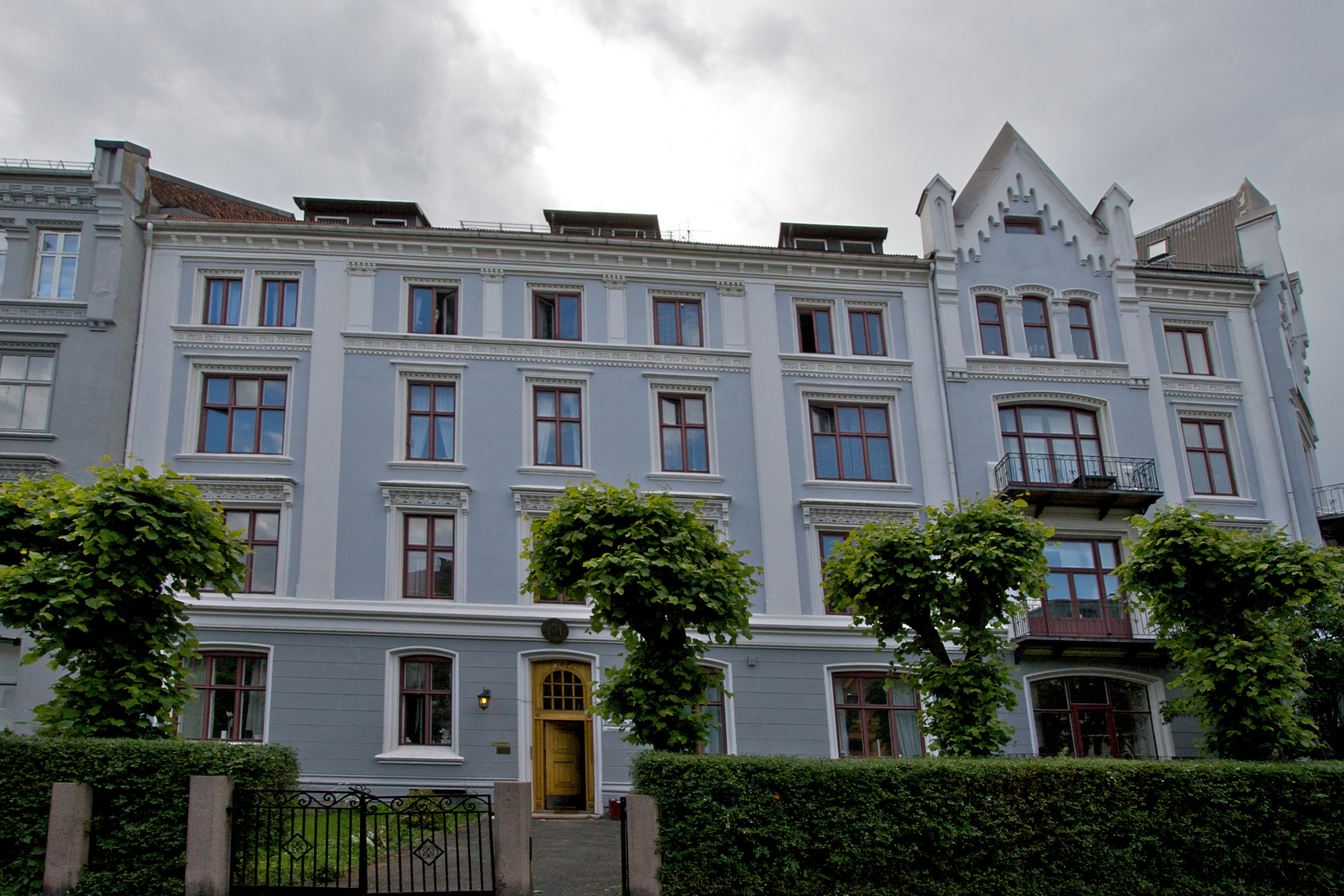 Spanish Embassy, Oslo, Norway.